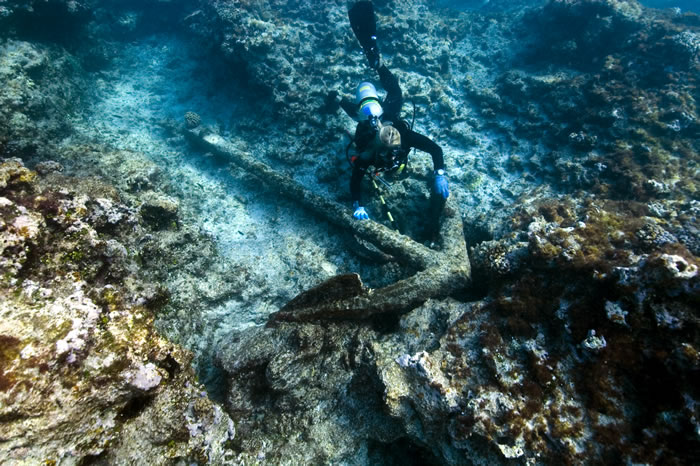 Kelly Gleason investigates an early 19th century anchor at the Hermes shipwreck site.